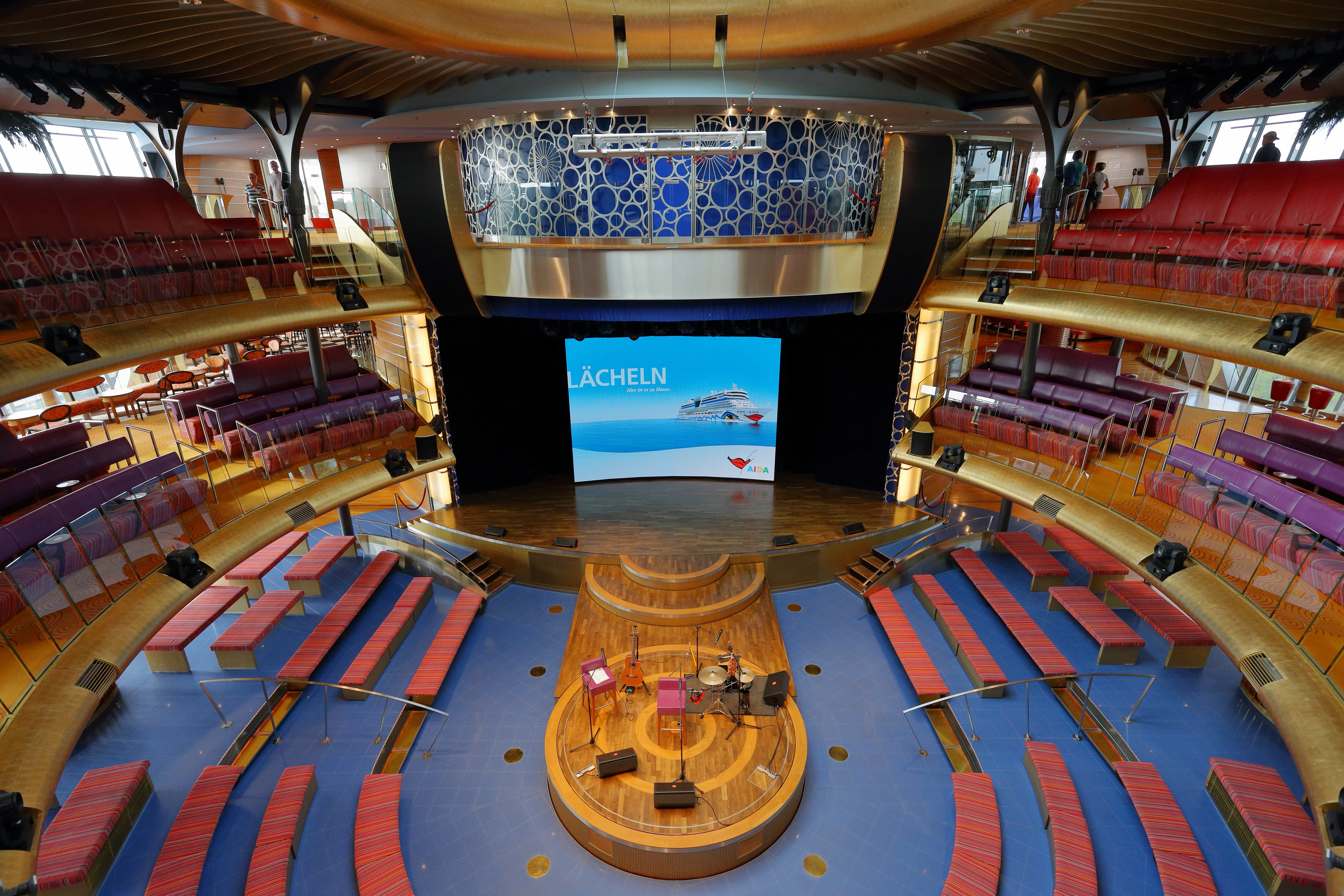 Theatrium of AIDAluna, March 2016